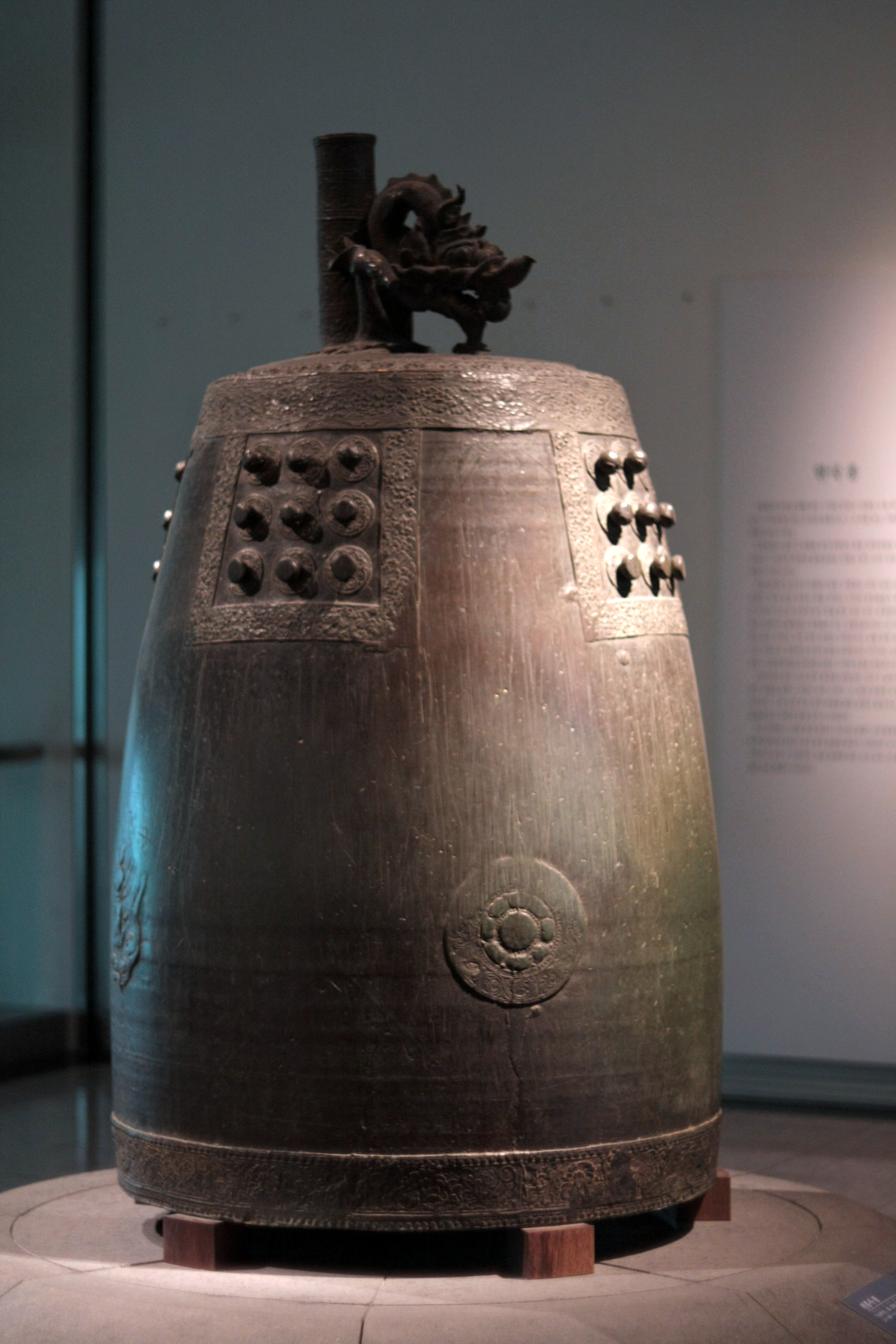 Bronze bell engraved to Cheonheungsa in Seonggeosan, Korea